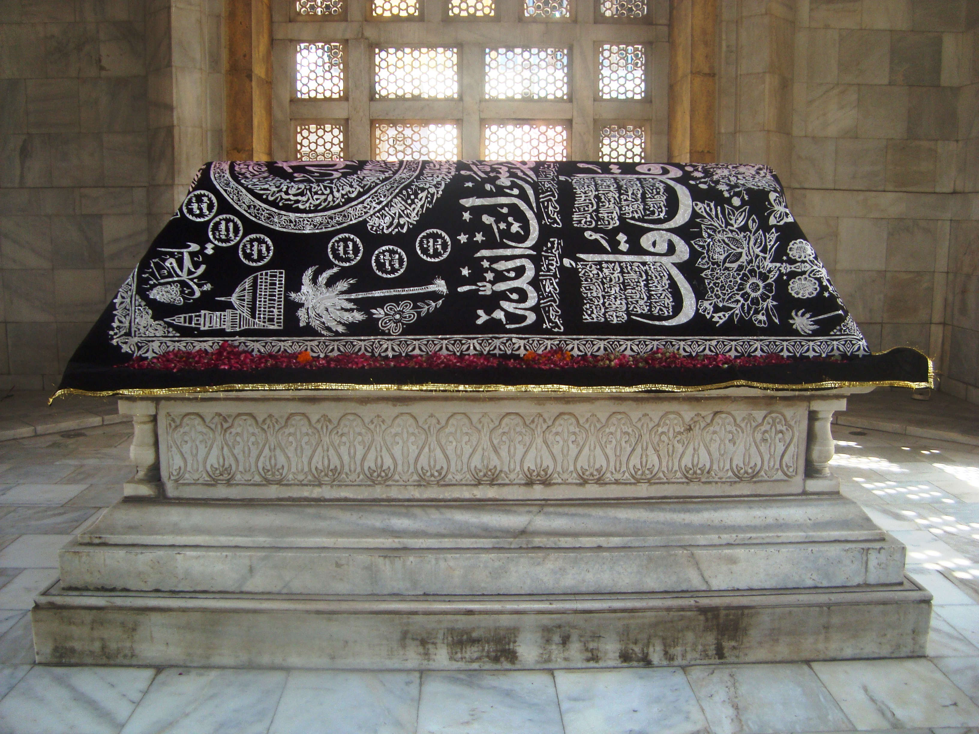 Tomb of Qutb-ud-din Aibak This is a photo of a monument in Pakistan identified as the PB-76